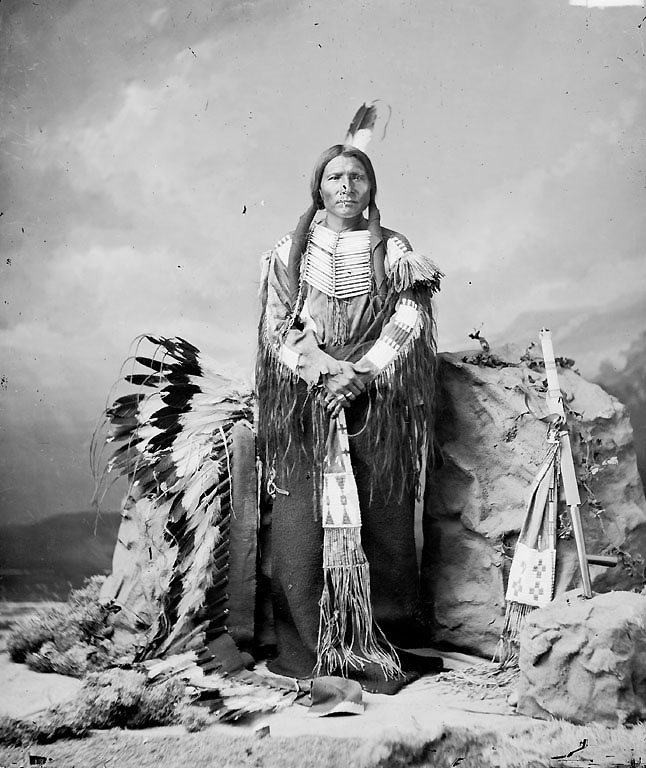 Little Big Man was famous warrior of Oglala Lakota.